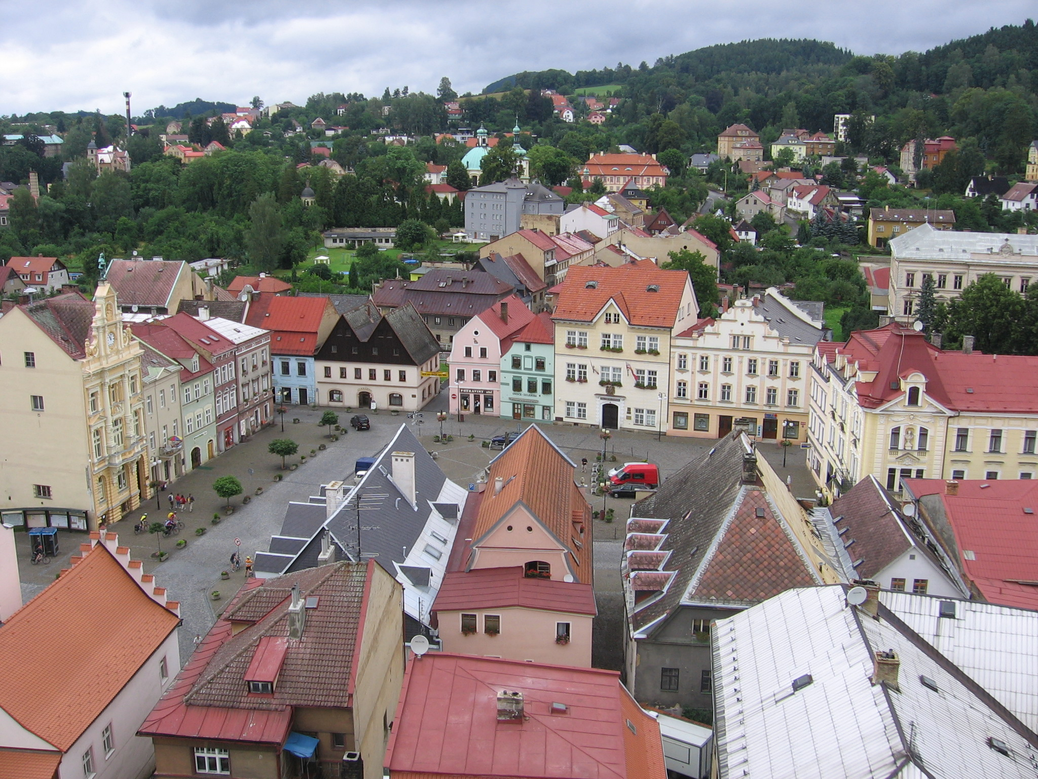 Square of Peace in Česká Kamenice (Czech Republic)